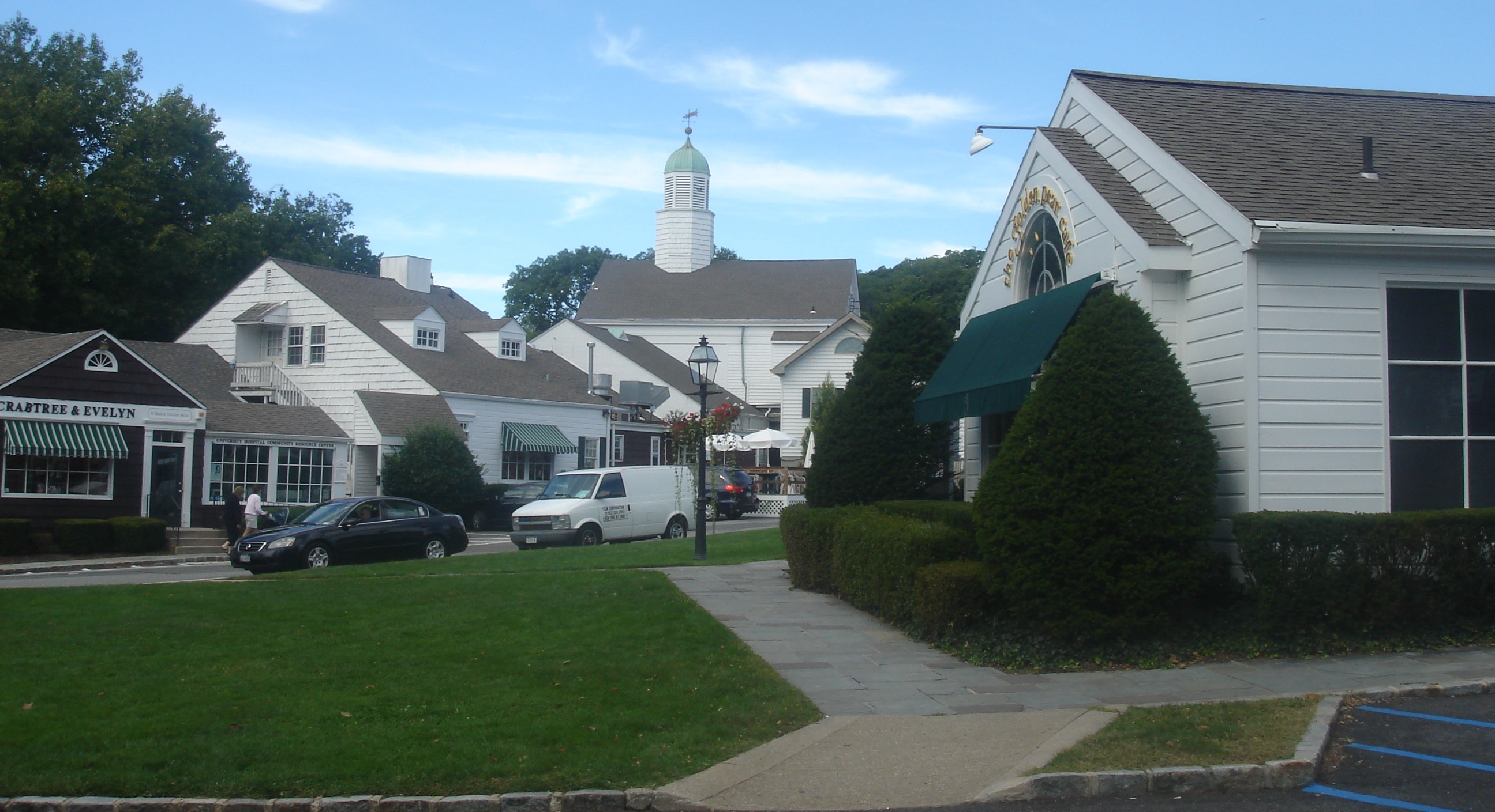 Village center of Stony Brook, Long Island.